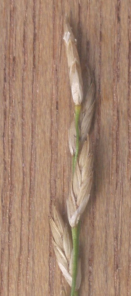 Glyceria maxima